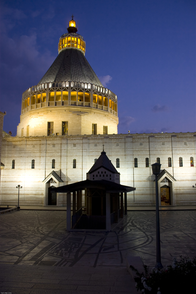 Photo of the Church of the Annunciation in Nazareth, Israel.